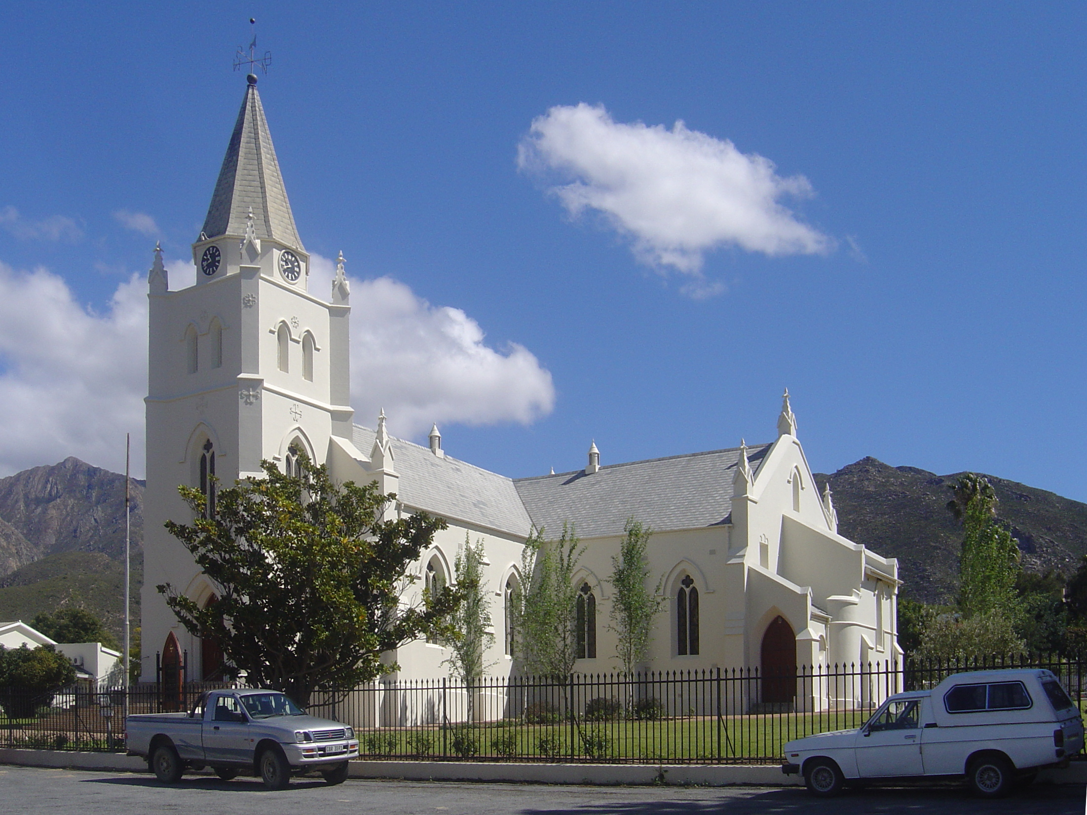 Church in Montagu, South Africa This media shows a South African Protected Site with SAHRA file reference 9/2/063/0018.